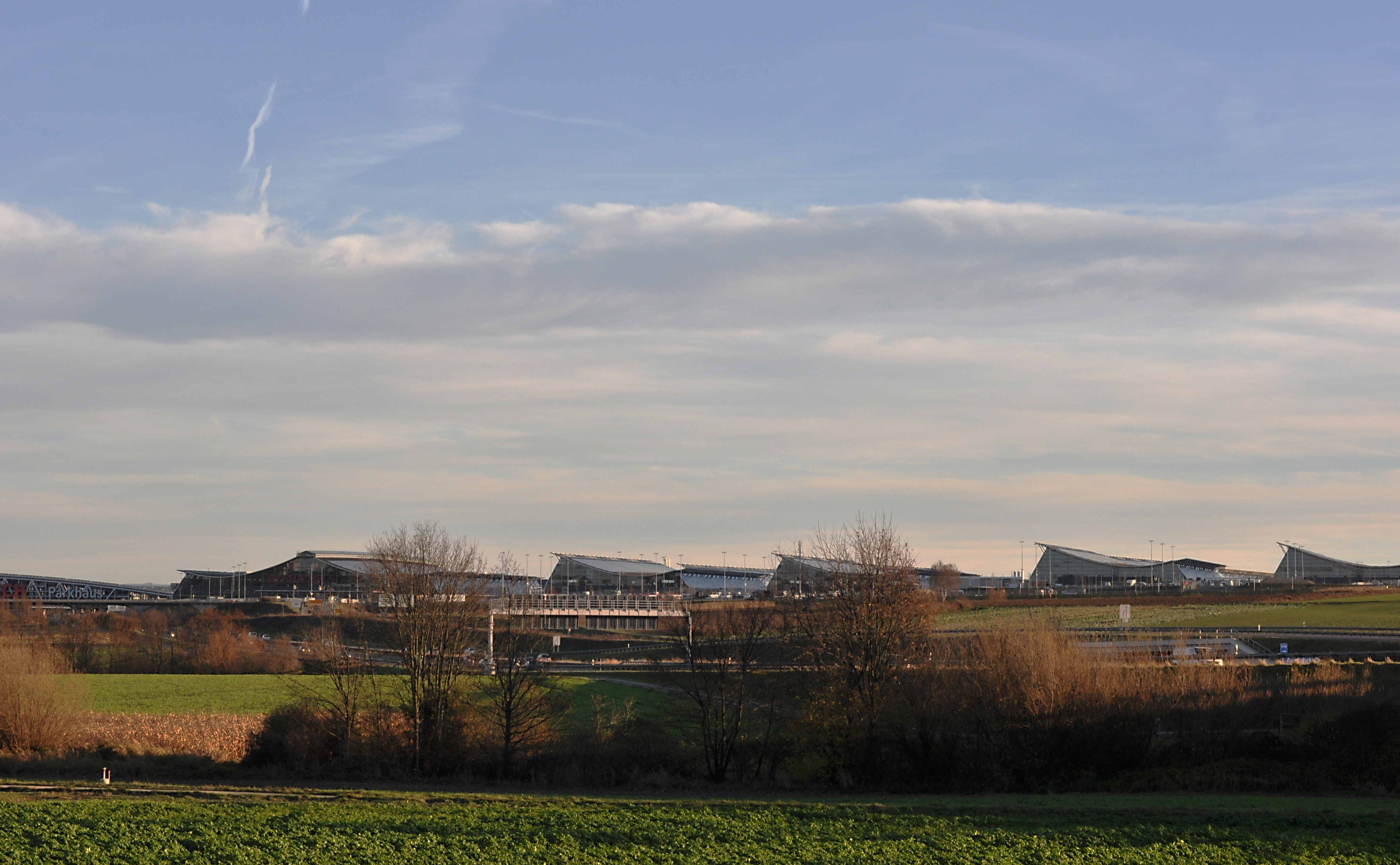 View from the south portal position of the planned Fildertunnels to Stuttgart Trade Fair. Camera position is about 50 mtrs east of the portal.